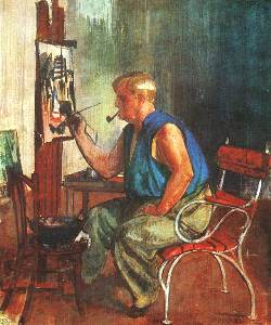 Painting of Hungarian artist Aba Novak from Hungarian fine art archives where it is the purpose to promote art in the media..